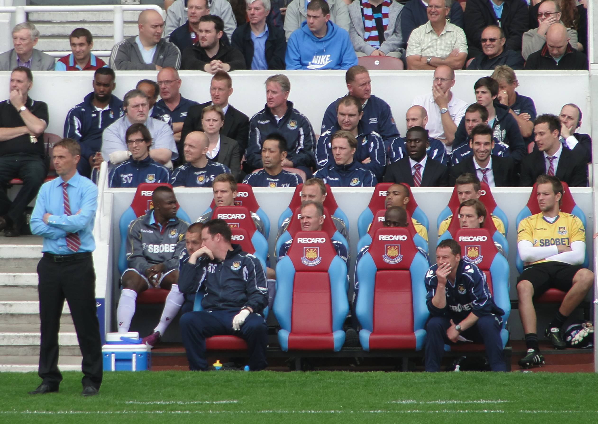 Kevin Keen (front in blue shirt with claret & blue striped tie) as caretaker manager of West Ham United in their game against Sunderland at the Boleyn Ground, 22 May 2011